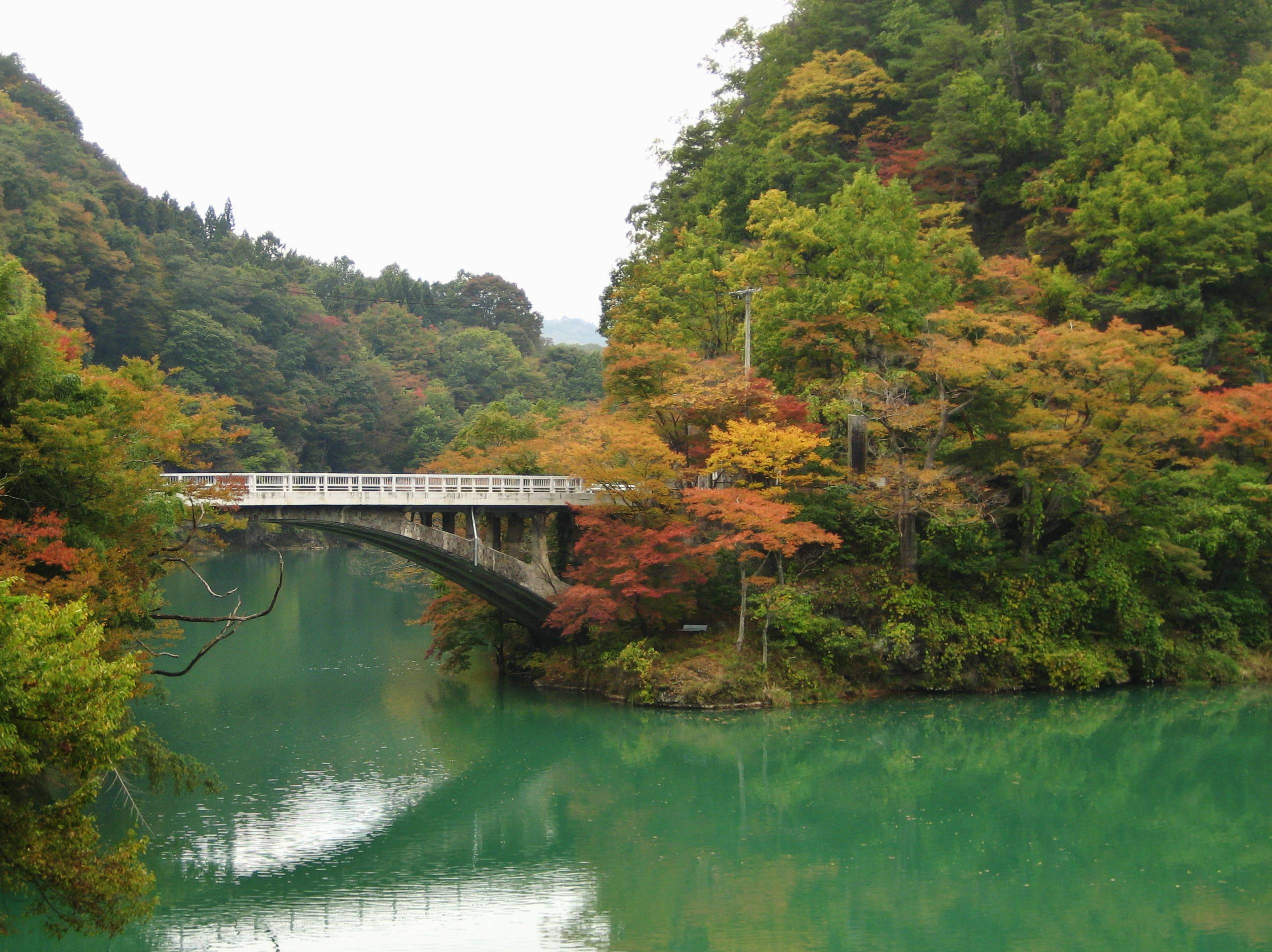 Kumejikyō Kumeji Biridge.